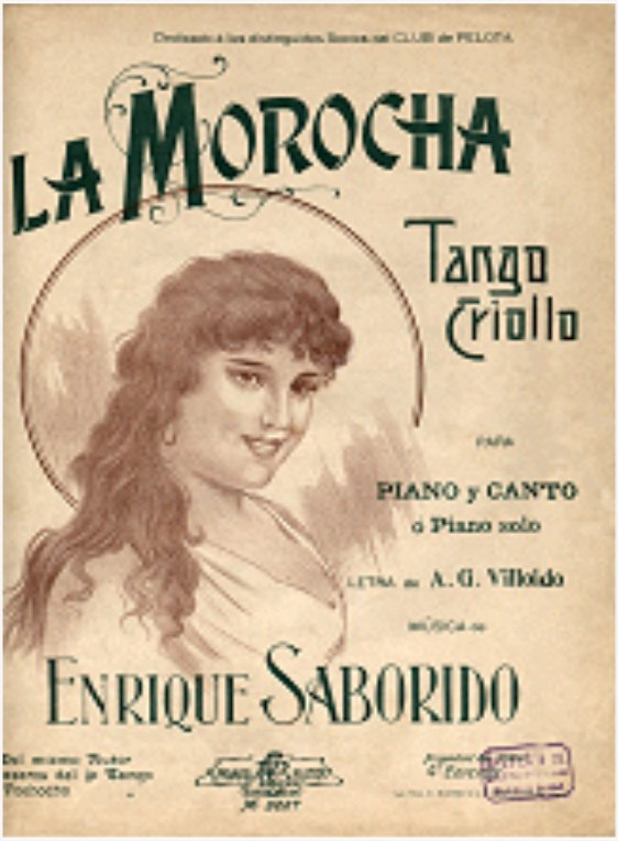 "La Morocha". Music writing. Tango by Angel Villoldo y Enrique Saborido. Argentina. 1905